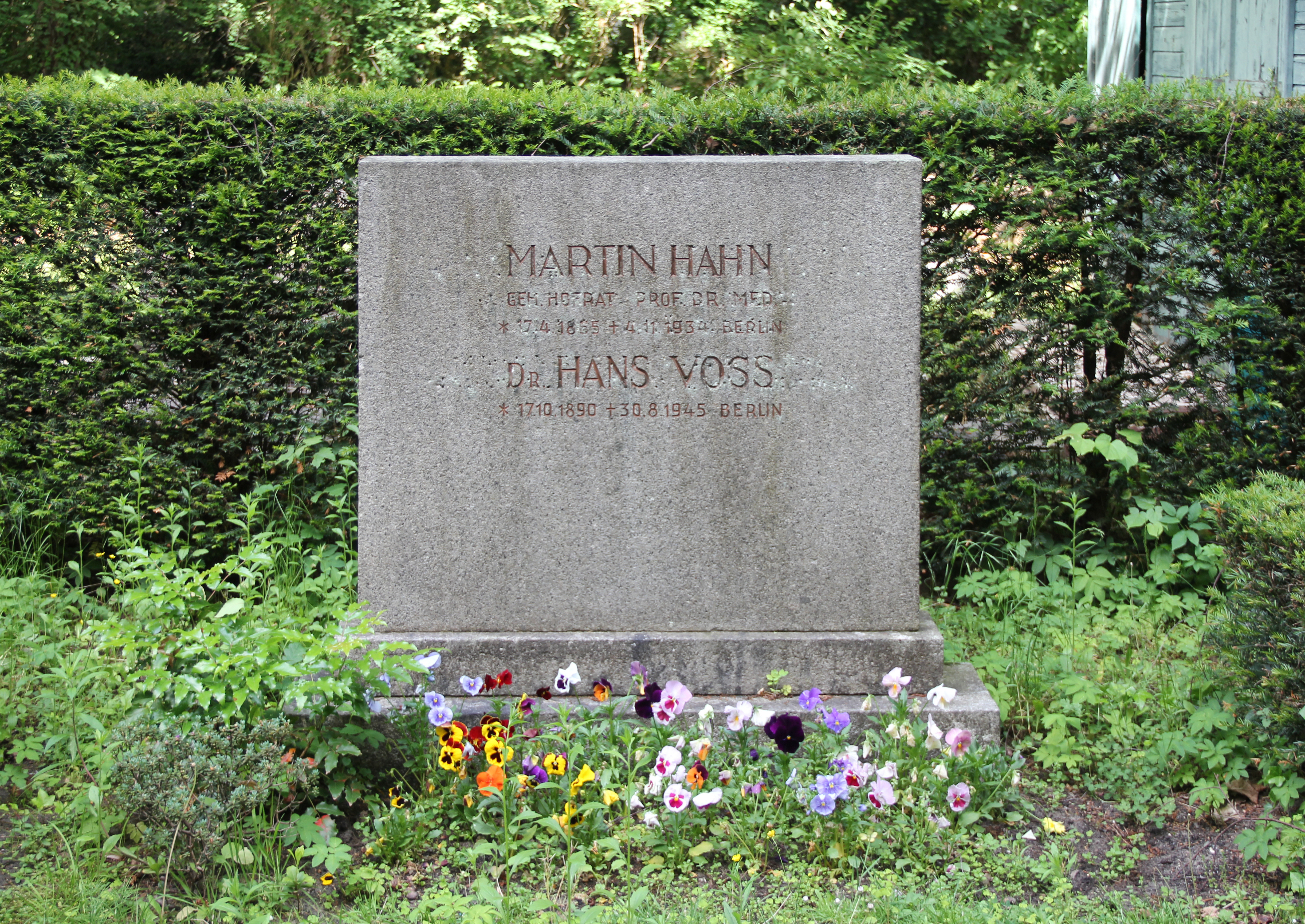 "Ehrengrab" (grave of honor), Martin Hahn, Lindenstraße 1, Berlin-Wannsee, Germany Koordinate:52°25′31″N 13°9′12″E / 52.42528°N 13.15333°E